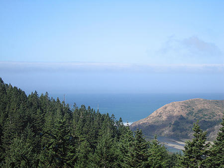 (C) 2005 Jennifer Jonak